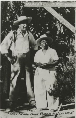 Publicity photograph of Mr. and Mrs. Murray at their dude ranch, with the tagline the “Only Negro Dude Ranch in the World” visible at the bottom. The Murrays’ western wear is a marked contrast to how they dressed while living in Los Angeles.